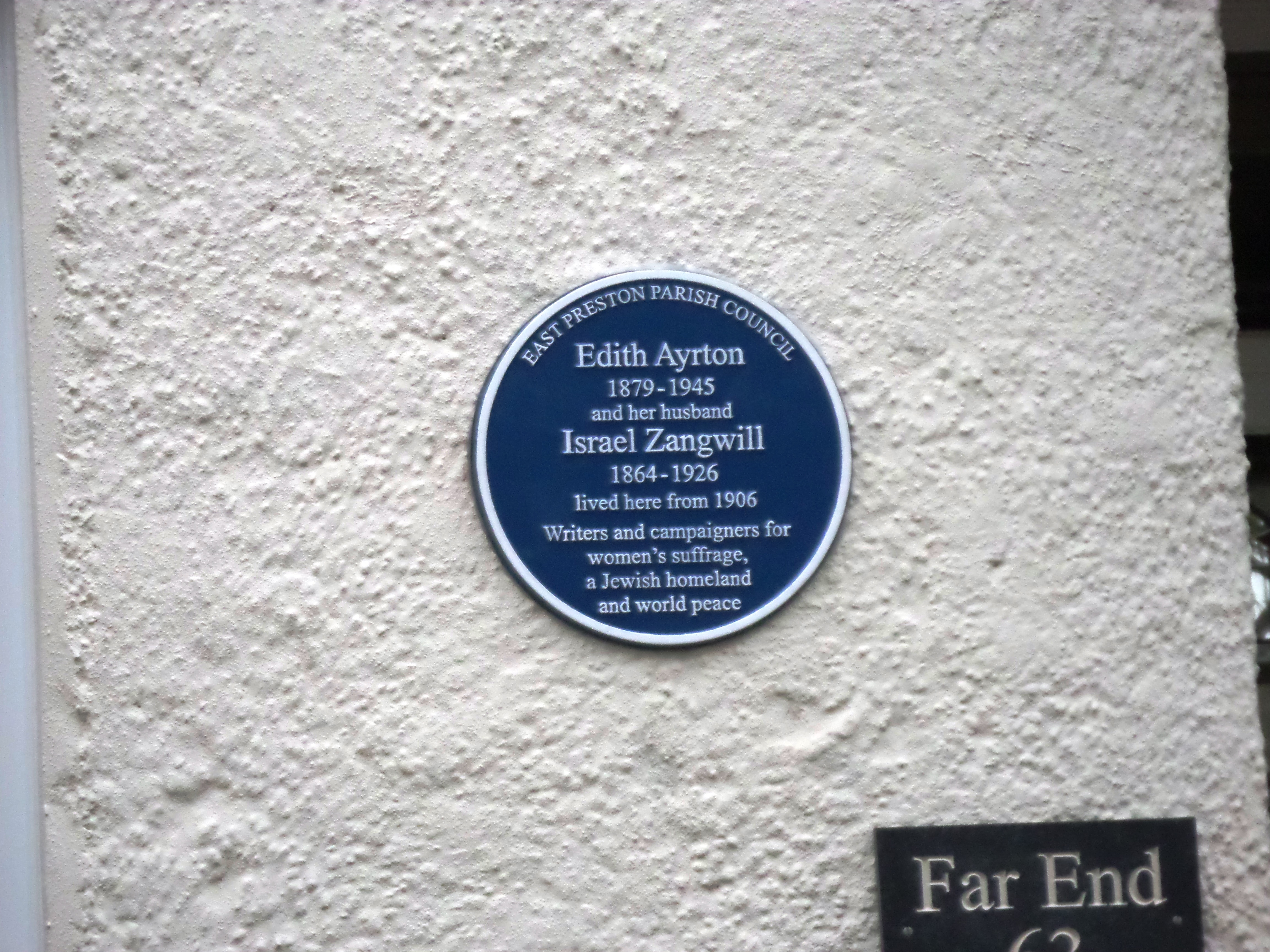 SAMSUNG CAMERA PICTURES